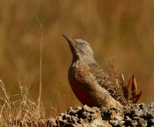 A Ground Woodpecker in South Africa.